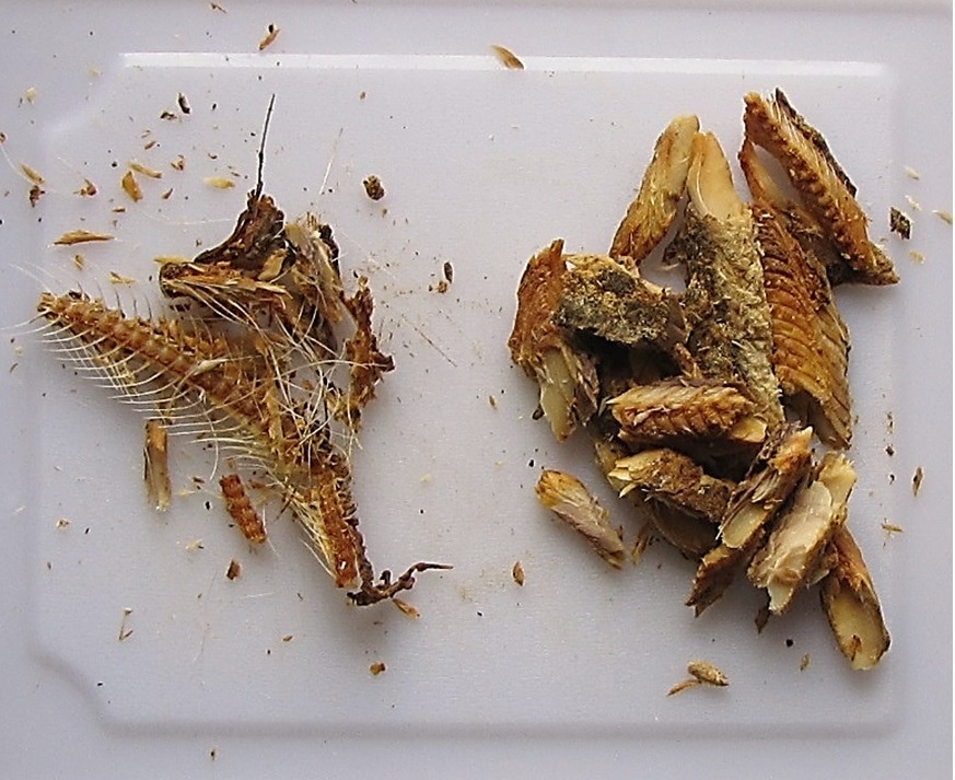 Kèthiakh/kethiakh, the fine bones of this salt-cured, dried fish must be removed before adding it to recipes. Shown the bones (L) to be discarded and (R) the salt-cured and dried flesh of the fish that now can be added (with or without rinsing) to popular traditional Senegalese and West African sauces. Written forms of the Wolof name vary, but are pronounced the same: kèthiakh uses the French alphabet, while keccax is per the Senegalese official alphabet), names will also vary between local languages. Not a large fish or quantity, used in this manner expressly for flavoring: Scale L to R is 21 cm